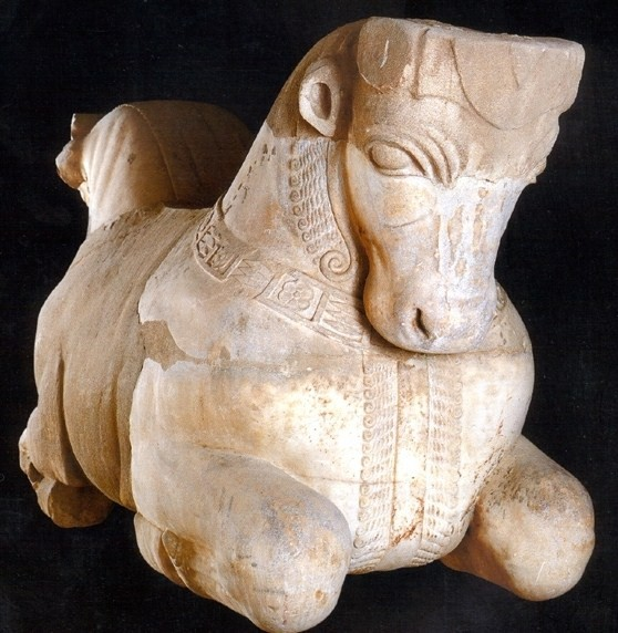 Bull protome found in the Eshmun sanctuary near Sidon, South Lebanon